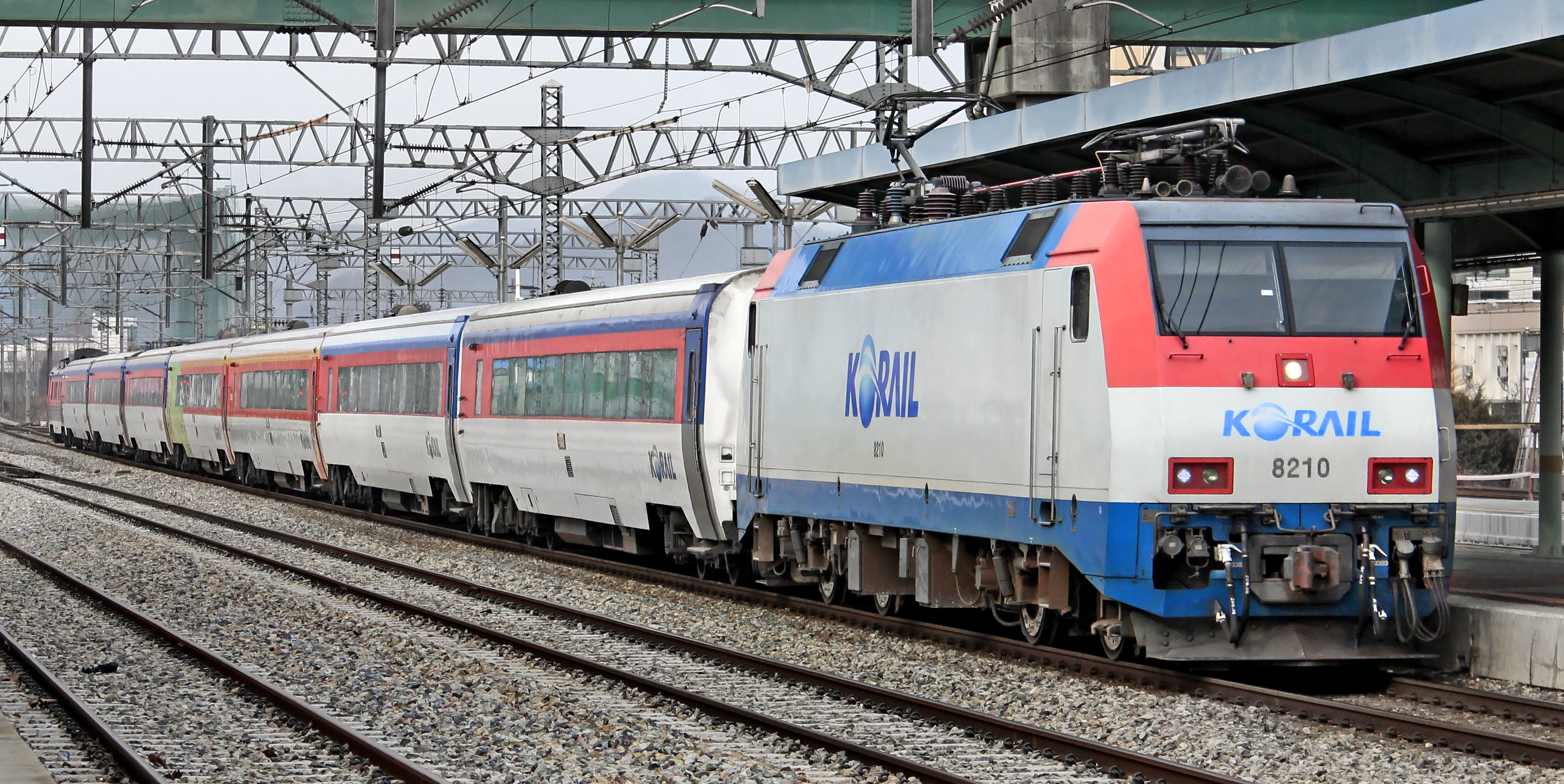 Southbound 21 Nov 2014 @Jochiwon Station